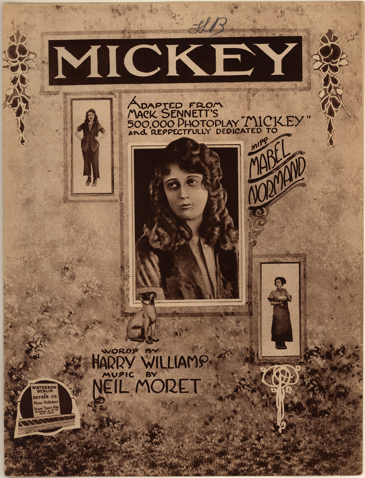 Sheet music cover to "Mickey" by Harry Williams and Neil Moret. Actress Mabel Normand shown on cover. Published by Waterson, Berlin & Snyder, 1918. Copyright expired.